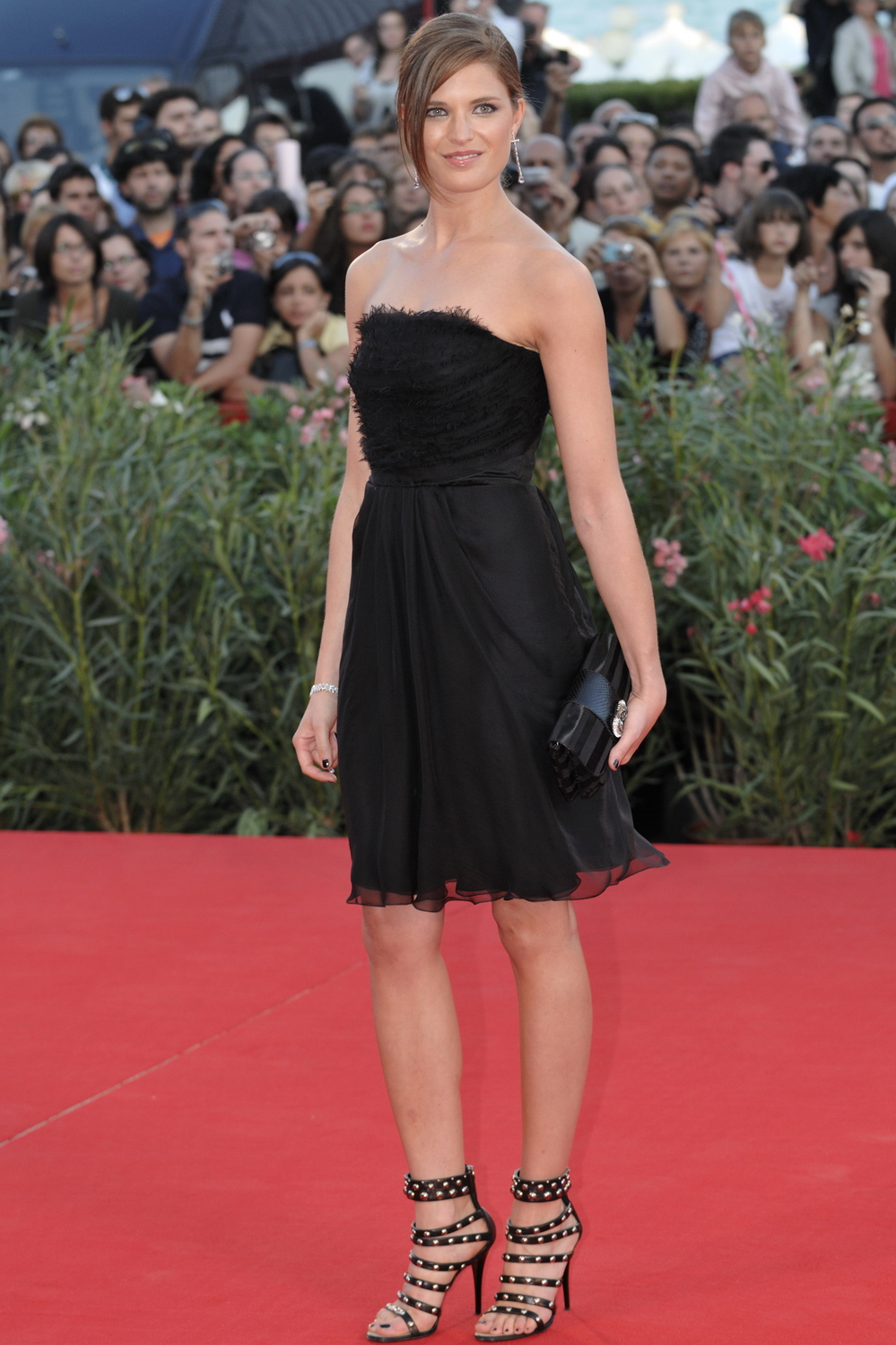 Alessia Piovan at the 66th Venice International Film Festival in 2009, for The Men Who Stare at Goats.